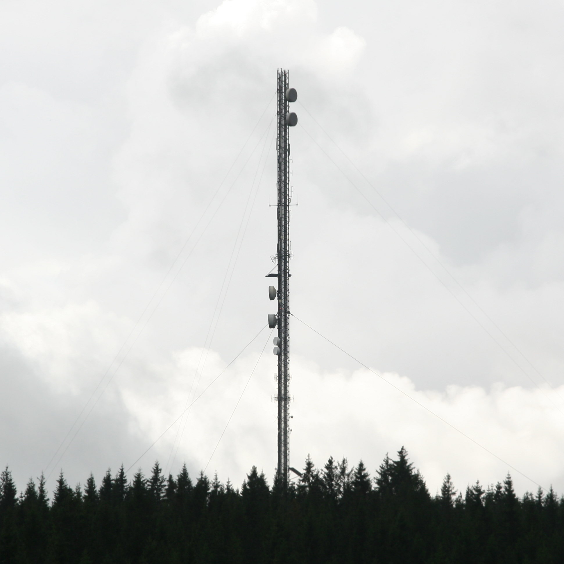 The remains of Häglaredsmasten outside Borås in Sweden after the sabotage on 15 May, 2016.